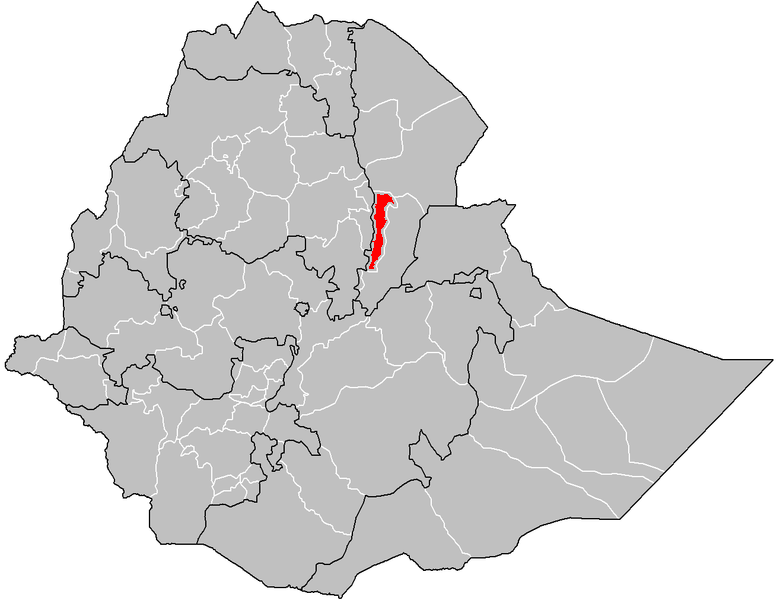 Ethiopia zones map with Afar Zone 5 enlighted.